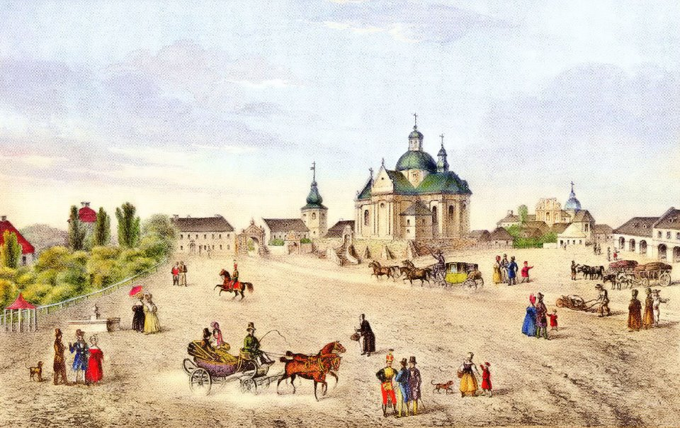 Market place in Zovkva